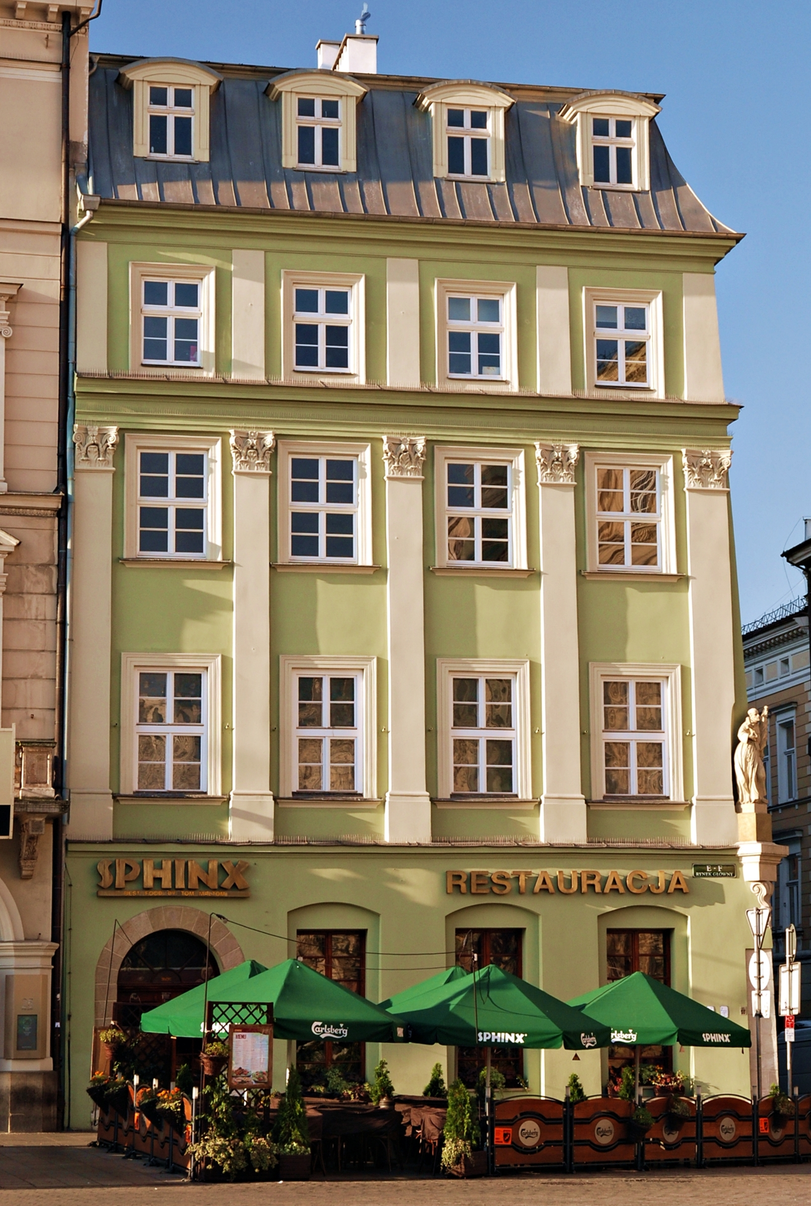 House pod św. Janem Kapistranem. Market Square 26, Kraków, Poland